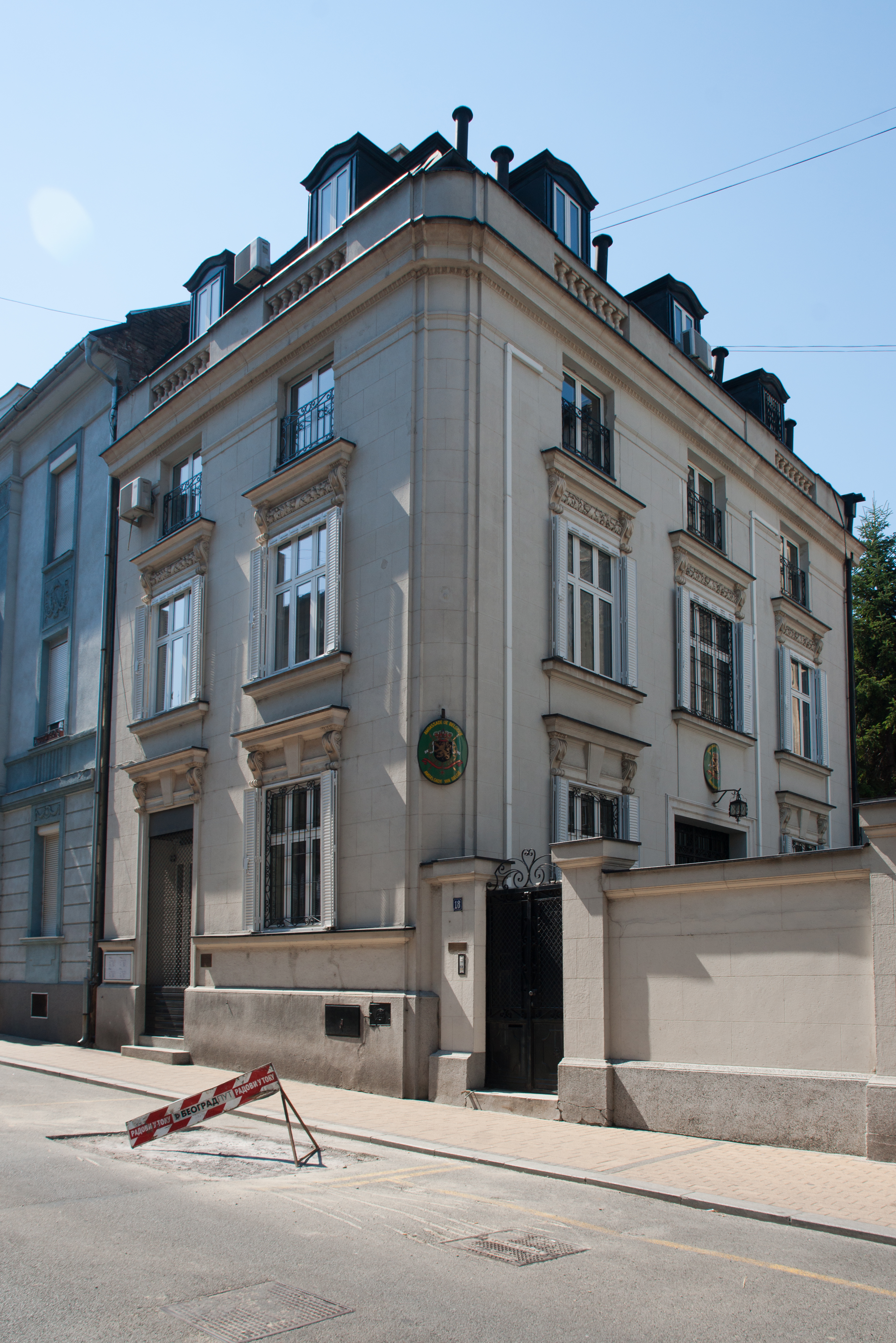 Belgium embassy - Belgrade